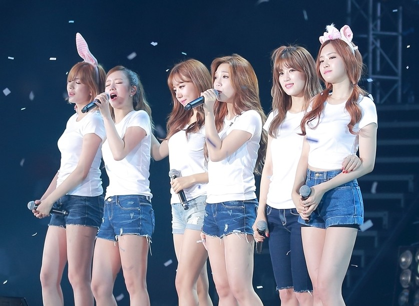 Apink during Pink Paradise concert.